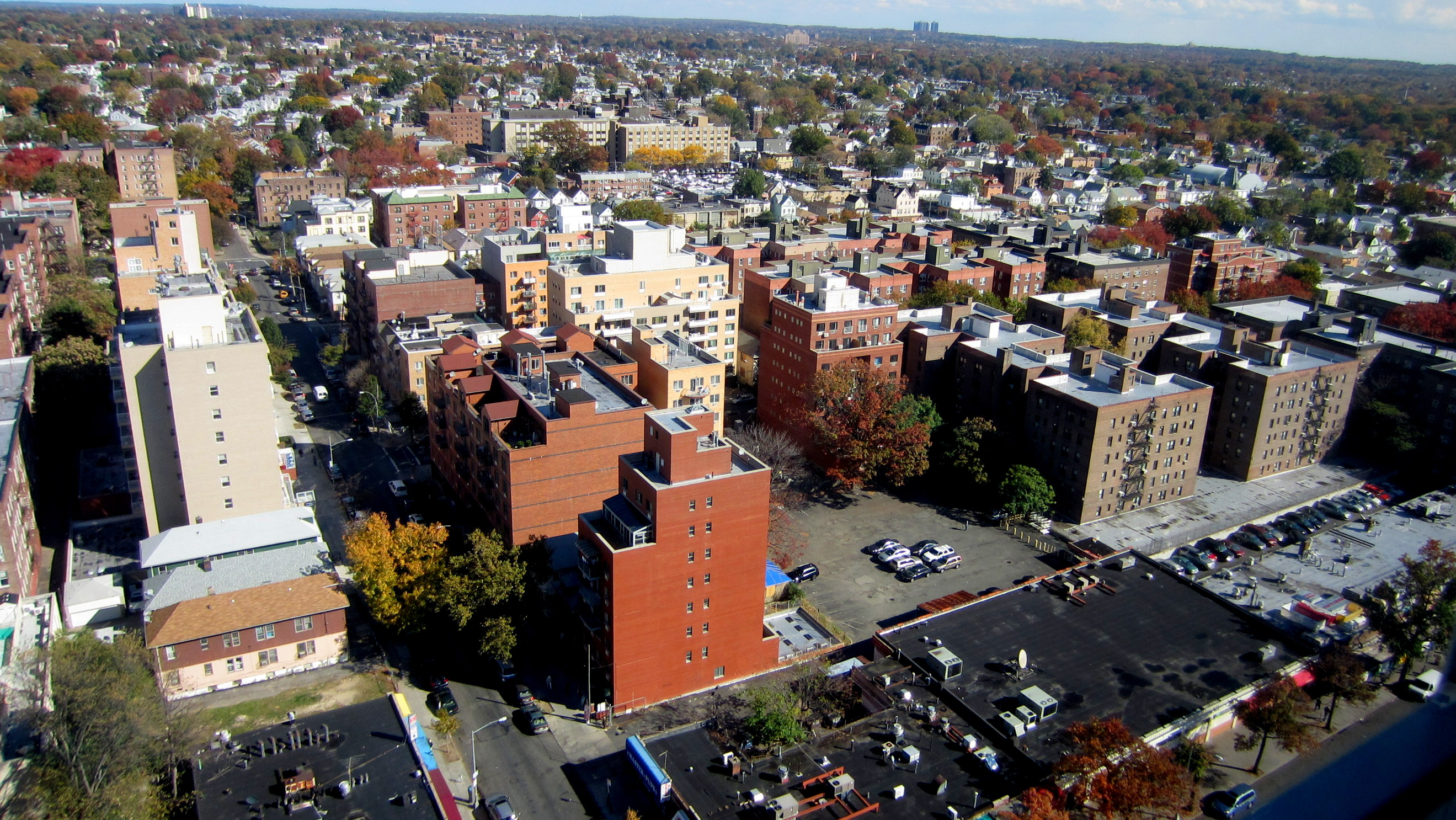 Flushing, Queens, NY, USA